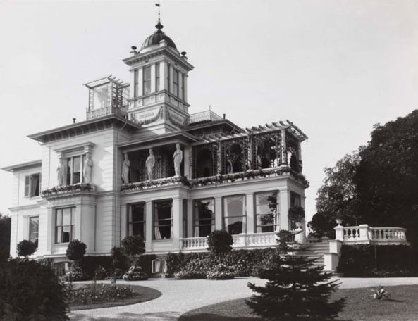 Postcard of Hvidøre Mansion, later the residence of Queen Dagmar